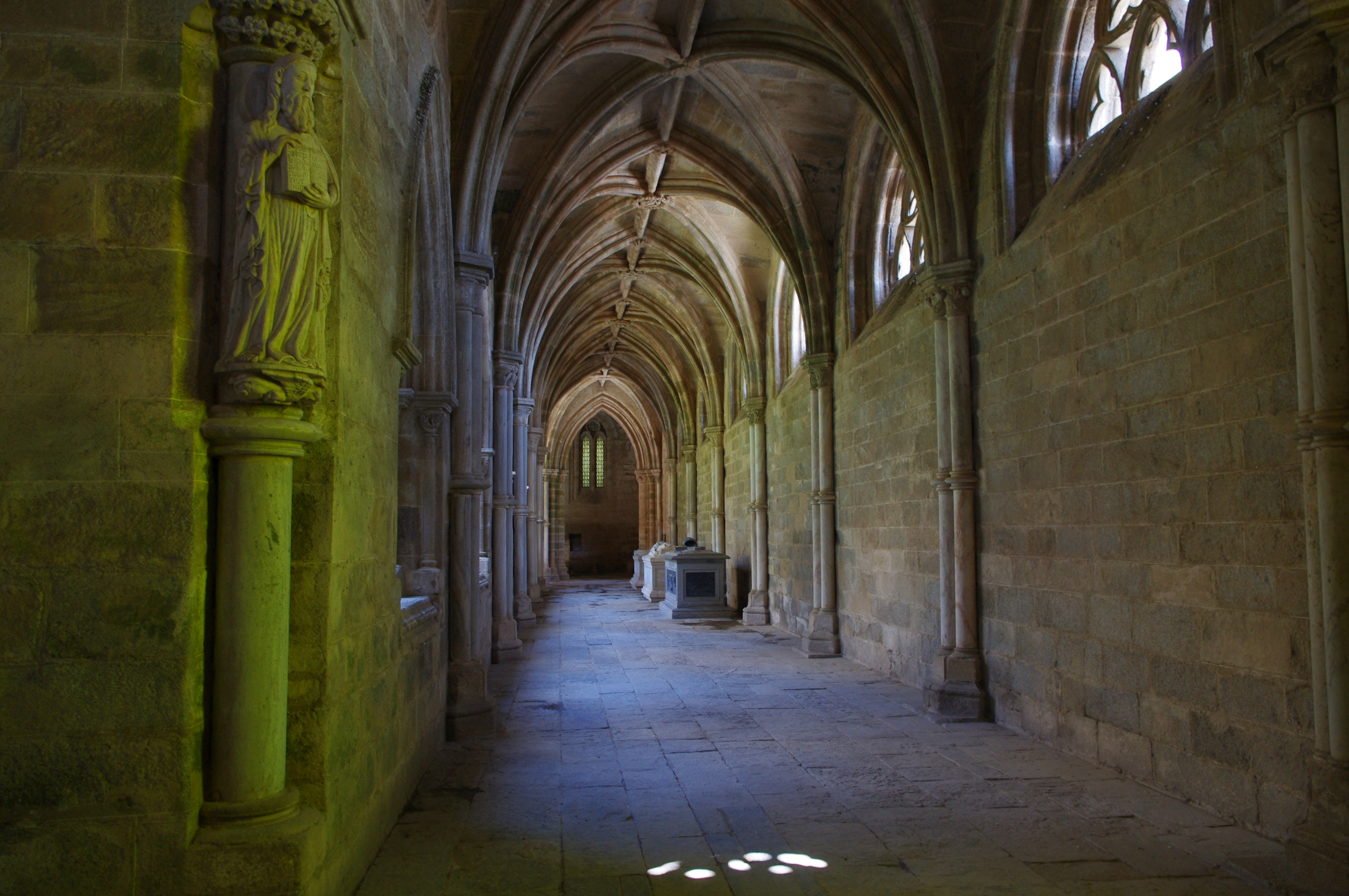 With their grey stone walls, elaborate Gothic vaulting and filtered light from the many stone windows, cloisters always have a very serene feel -- which is perfect for their intended use as a place of refuge from the outside world.